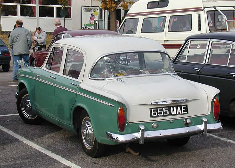 1961 Hillman Minx at a Classics Rally in Bristol, England.